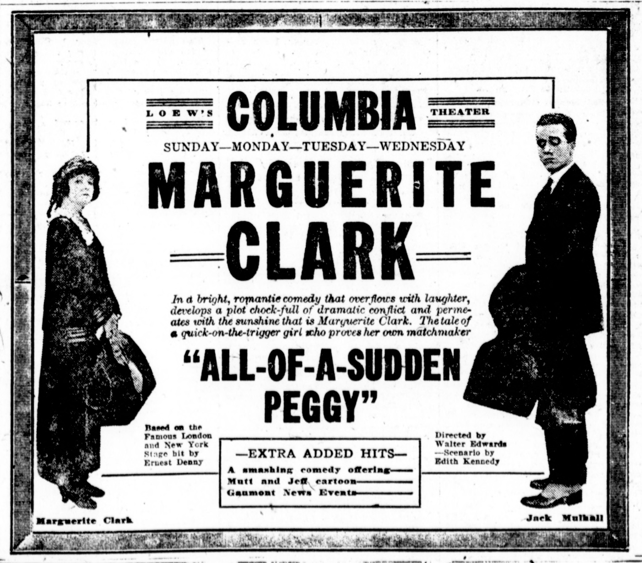 All of a Sudden Peggy is a lost 1920 silent film comedy/romance directed by Walter Edwards and starring Marguerite Clark and Jack Mulhall. This is a newspaper advertisement for the film.